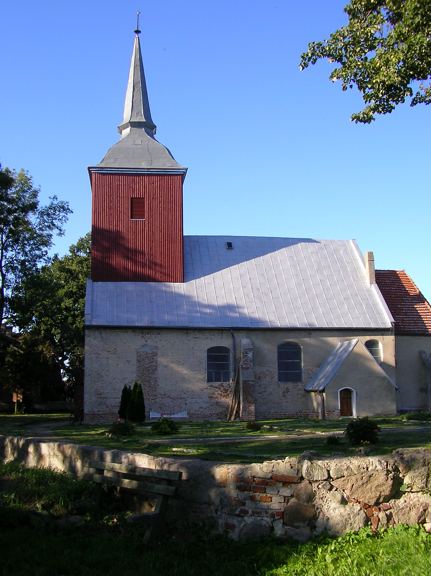 St. Mary's Immaculate Heart Church in Roby, Poland (ex protestant church)